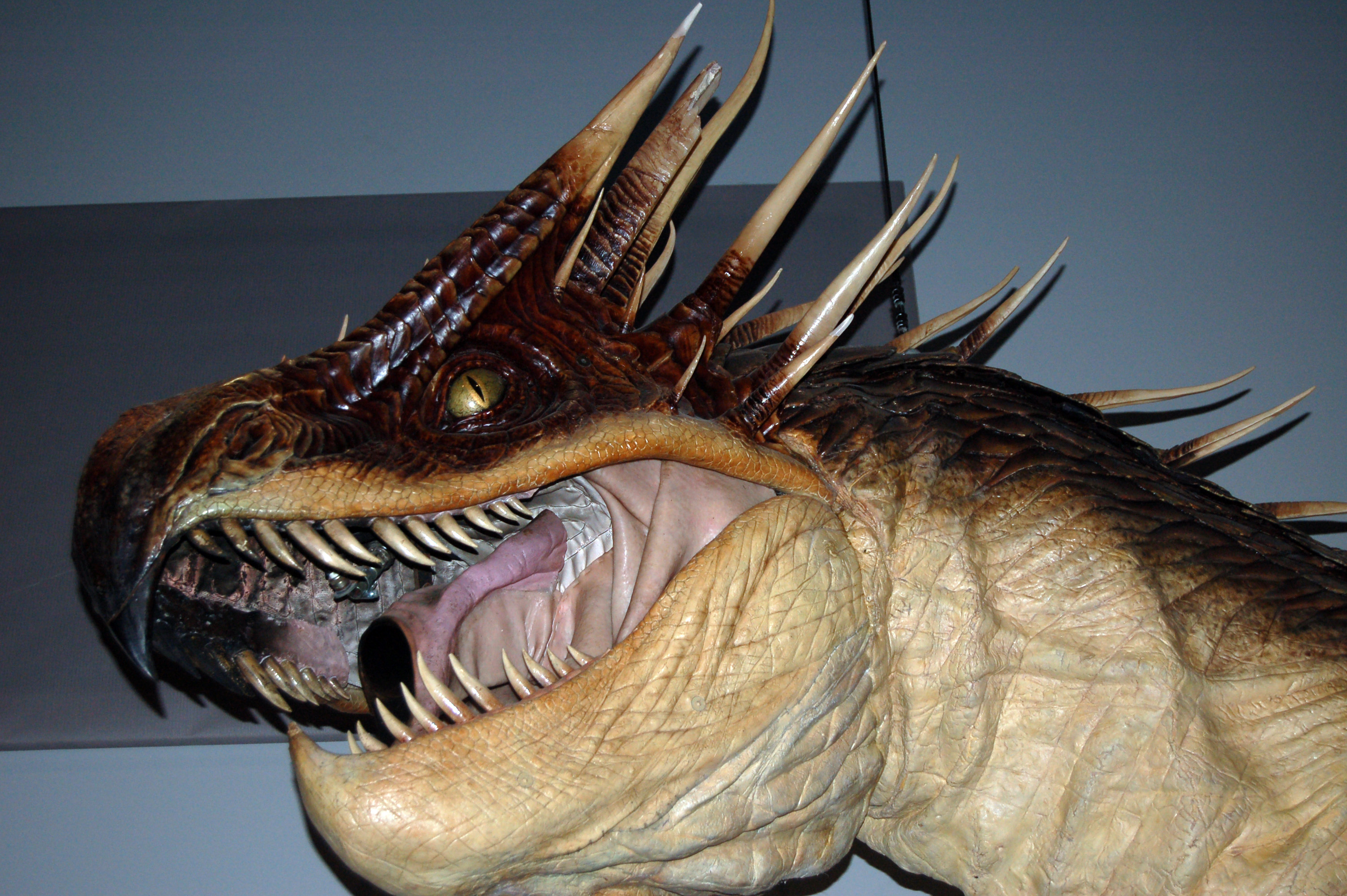 Hungarian Horn Tail